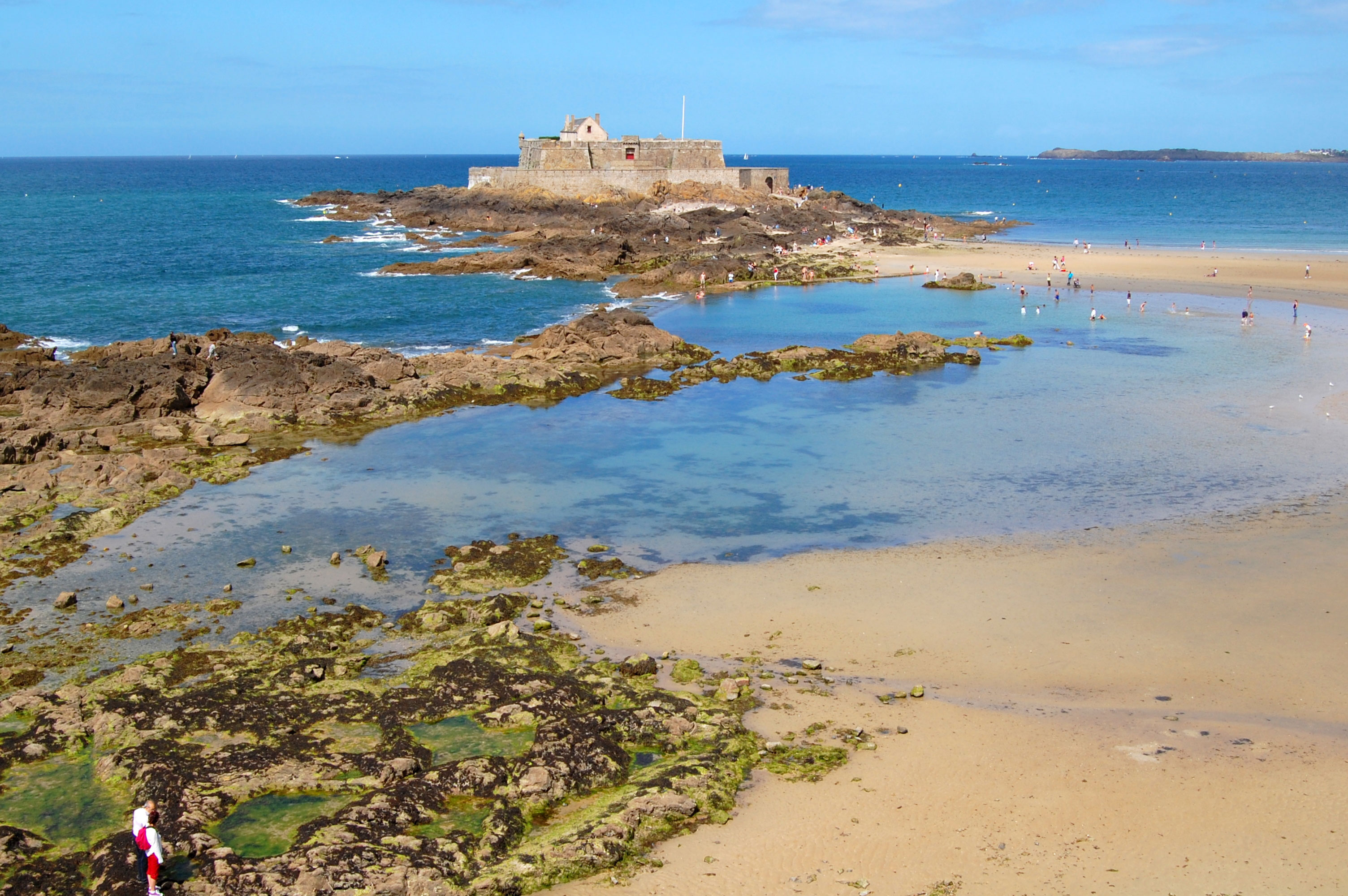 Fort National, Saint Malo (Brittany, France)